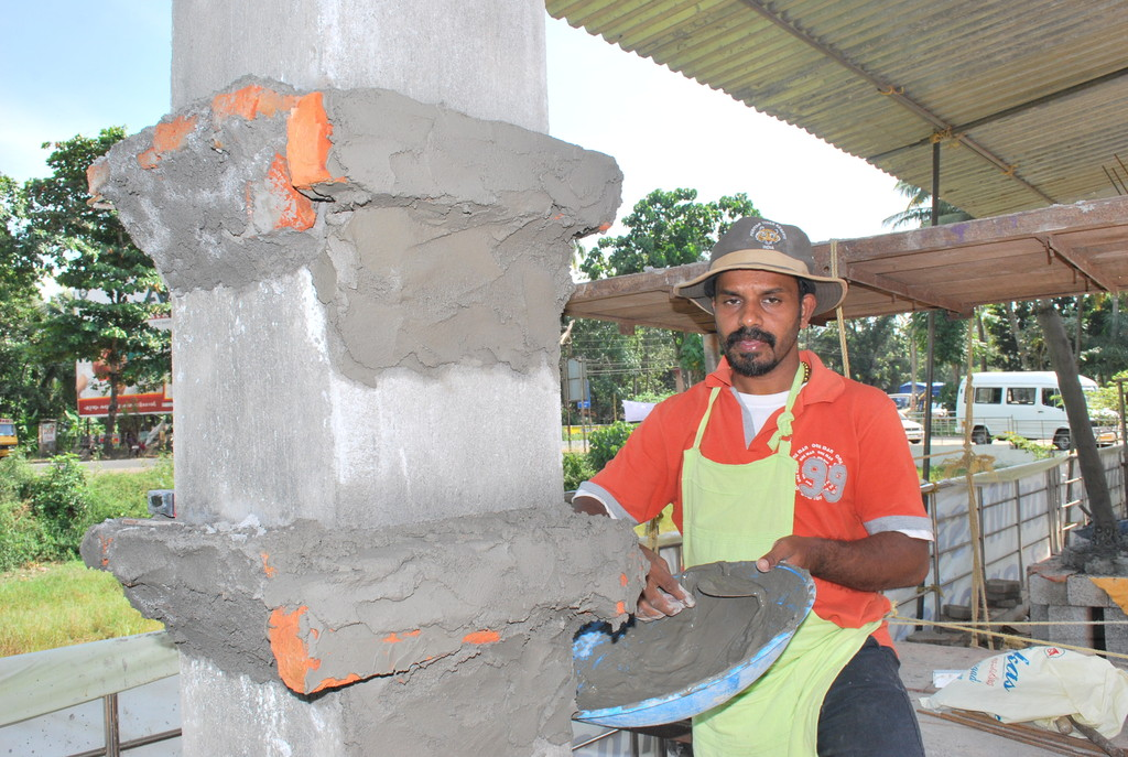 Sculptor subash at Kerala Lalitha kala academis sculptor camp at Kayamkulam, Dec 2014